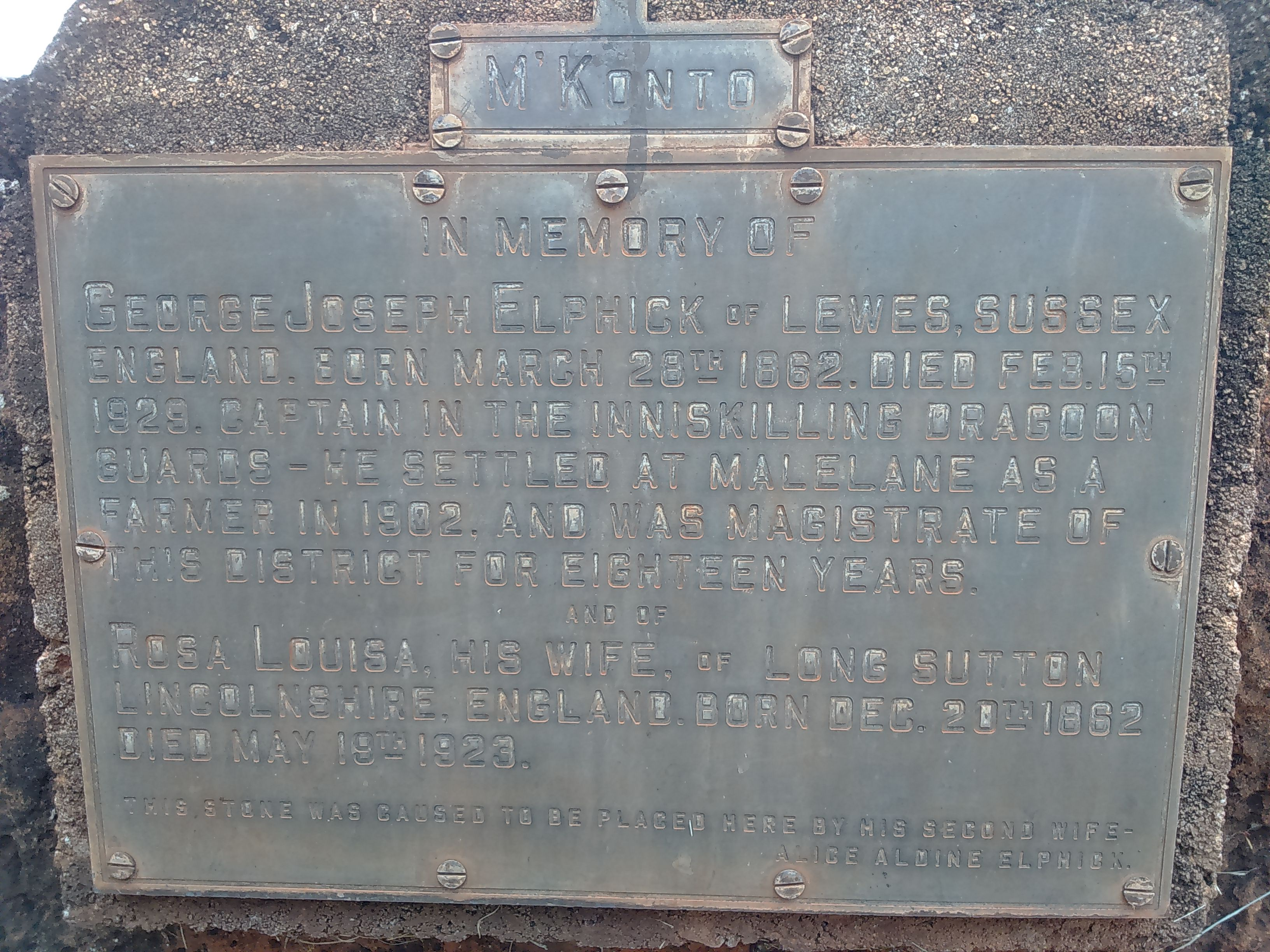 One of the Tombstones of Capt GJ Elphic at Malalane cemetery